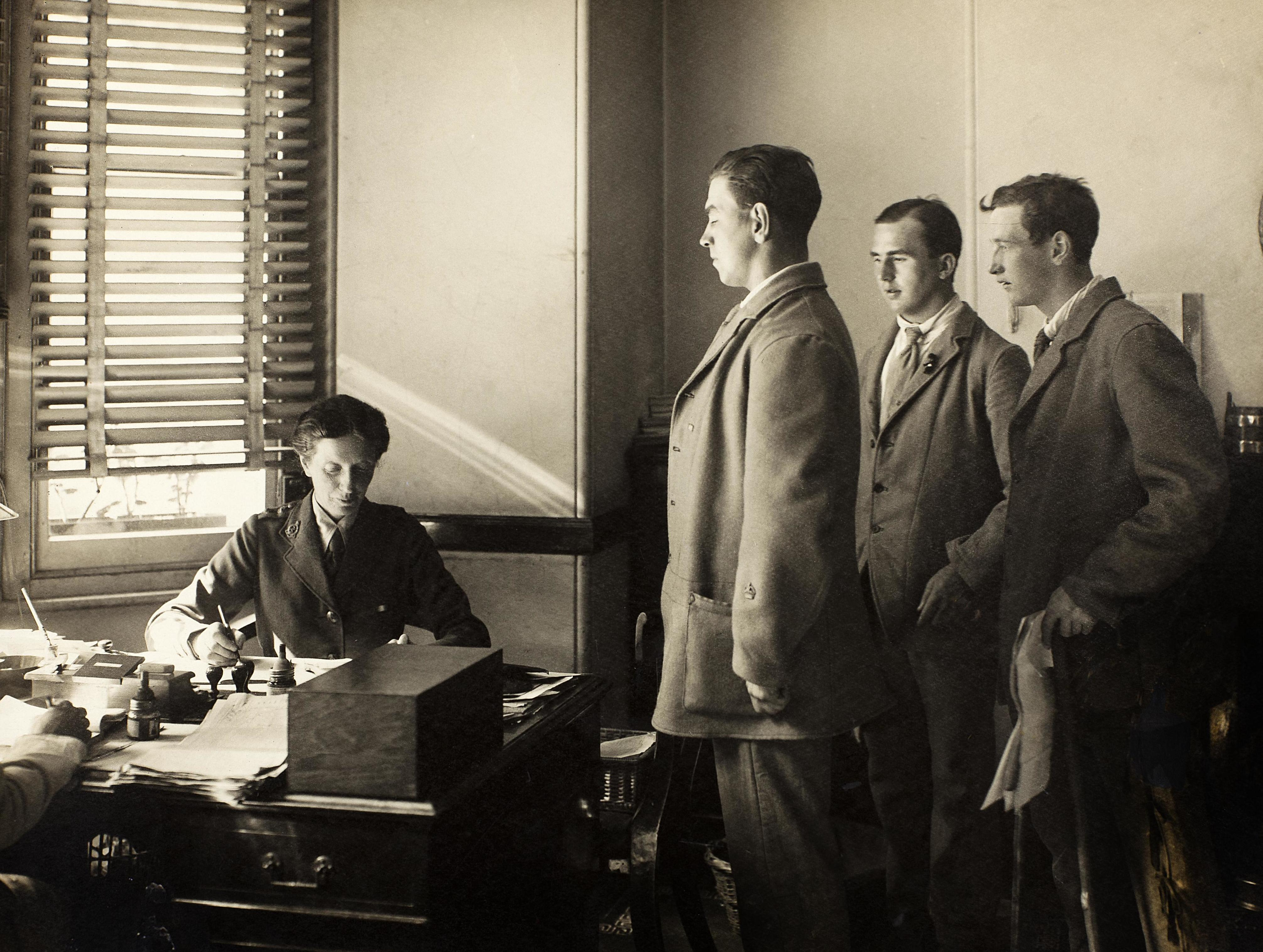 7LGA/6/15